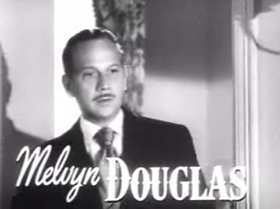 Cropped screenshot of Melvyn Douglas from the trailer for the film My Forbidden Past.